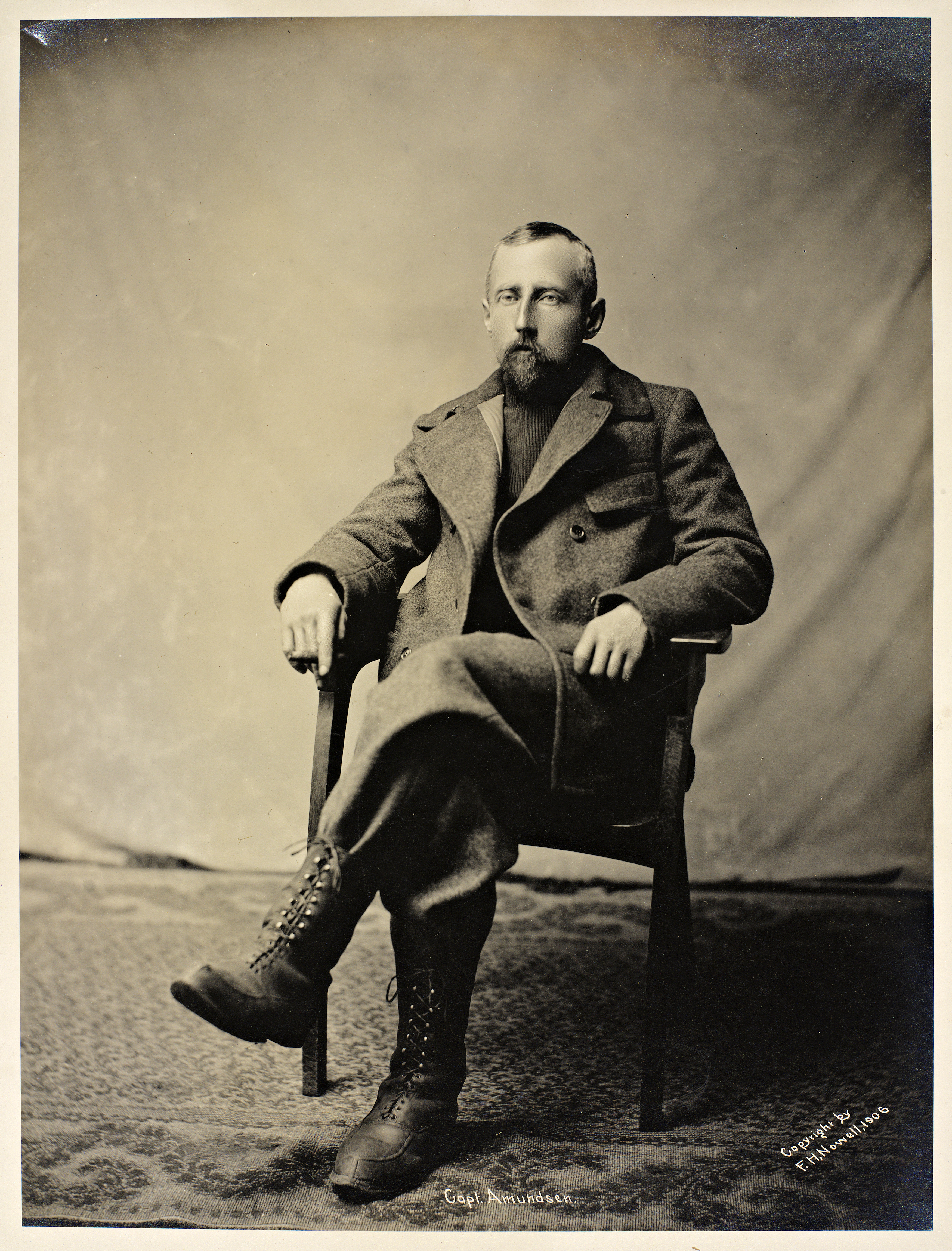 Dato / Date: 1906 Fotograf / Photographer: Frank H. Nowell Sted / Place: Alaska, Nome Eier / Owner Institution: Nasjonalbiblioteket / National Library of Norway Lenke / Link: Bildesignatur / Image Number: bldsa_SURA0067